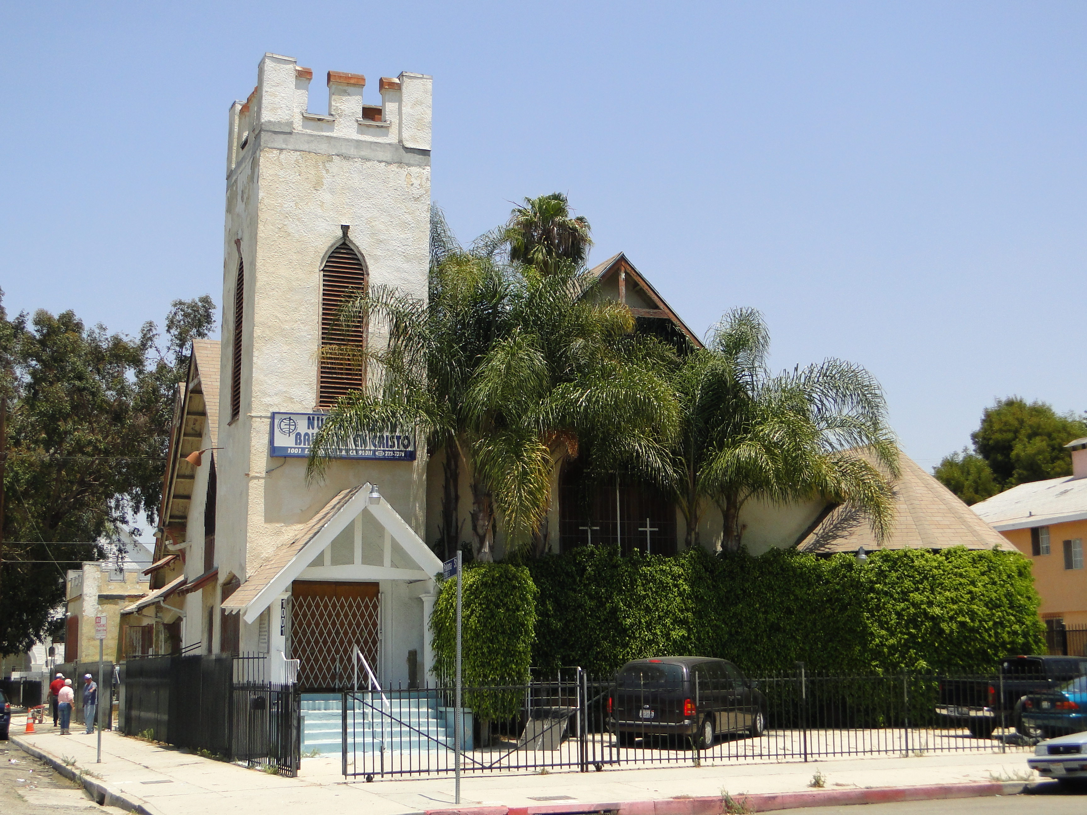 Church at 1001 E. 28th Street. A Gothic Revival style church built in 1906 for the Salem Congregational Church. It was acquired in 1917 by the Armenian Gethsemane Congregational Church, and subsequently acquired in 1944 by the East 28th Street Christian Church, a black congregation. The Church is a significant element-part of the 27th Street Historic District.